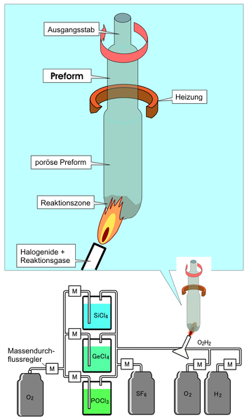 Vapor (Phase) Axial Deposition (VAD) process for optical fiber manufacturing (German labeling)